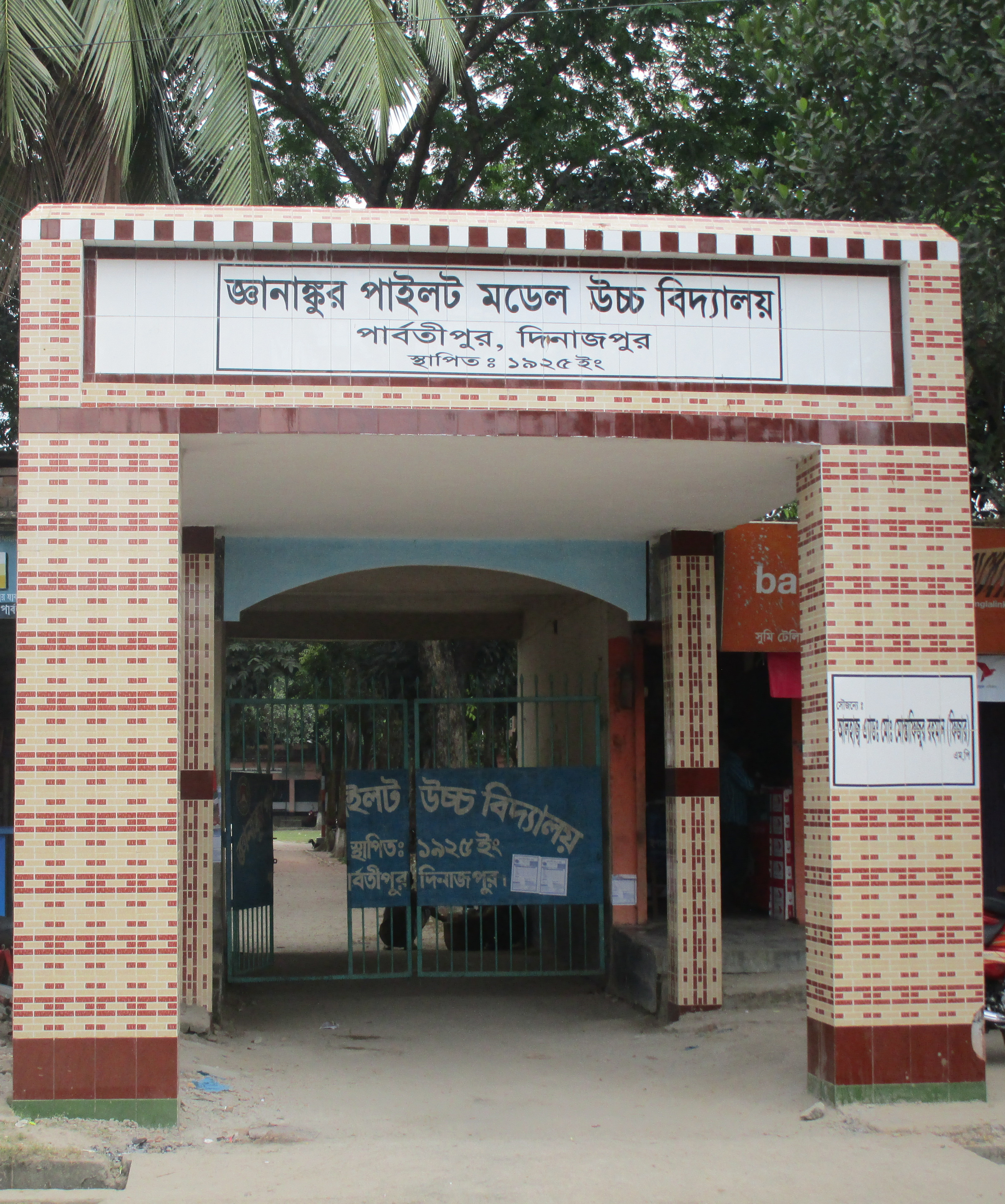 The main gate of Gayankur Pilot High School, Parbatipur.